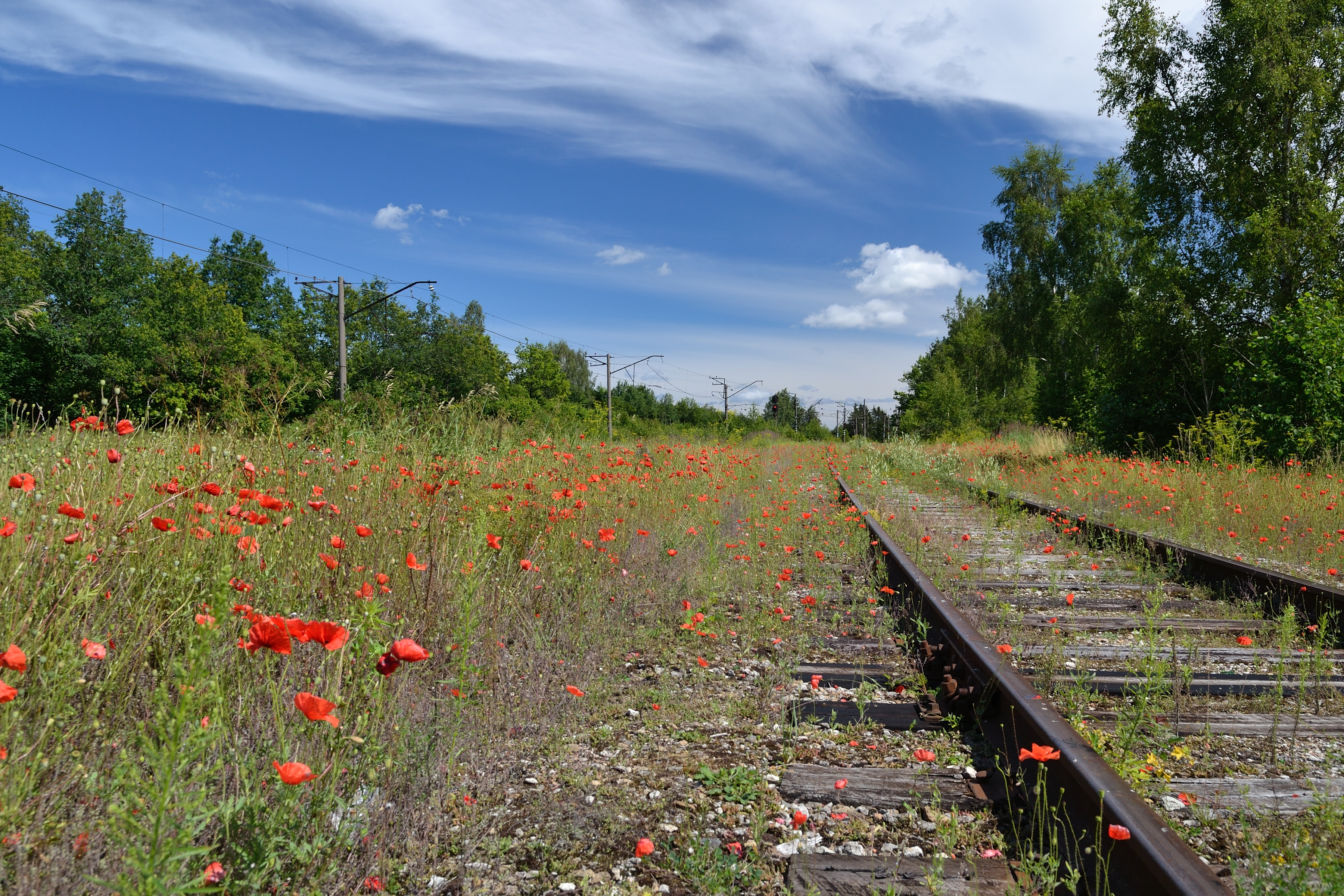 Long-headed Poppy (Papaver dubium) by the railway